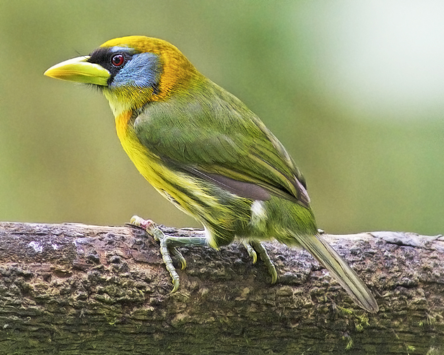 While the male with his red head may be more colorful, the female Red-headed Barbet has a lot of color as well. The green and yellow tones on the legs blend in well with the underside of the bird. Two images of a male are next in my photostream. July 10, 2014. Near Mindo, Pichincha Province, Ecuador.